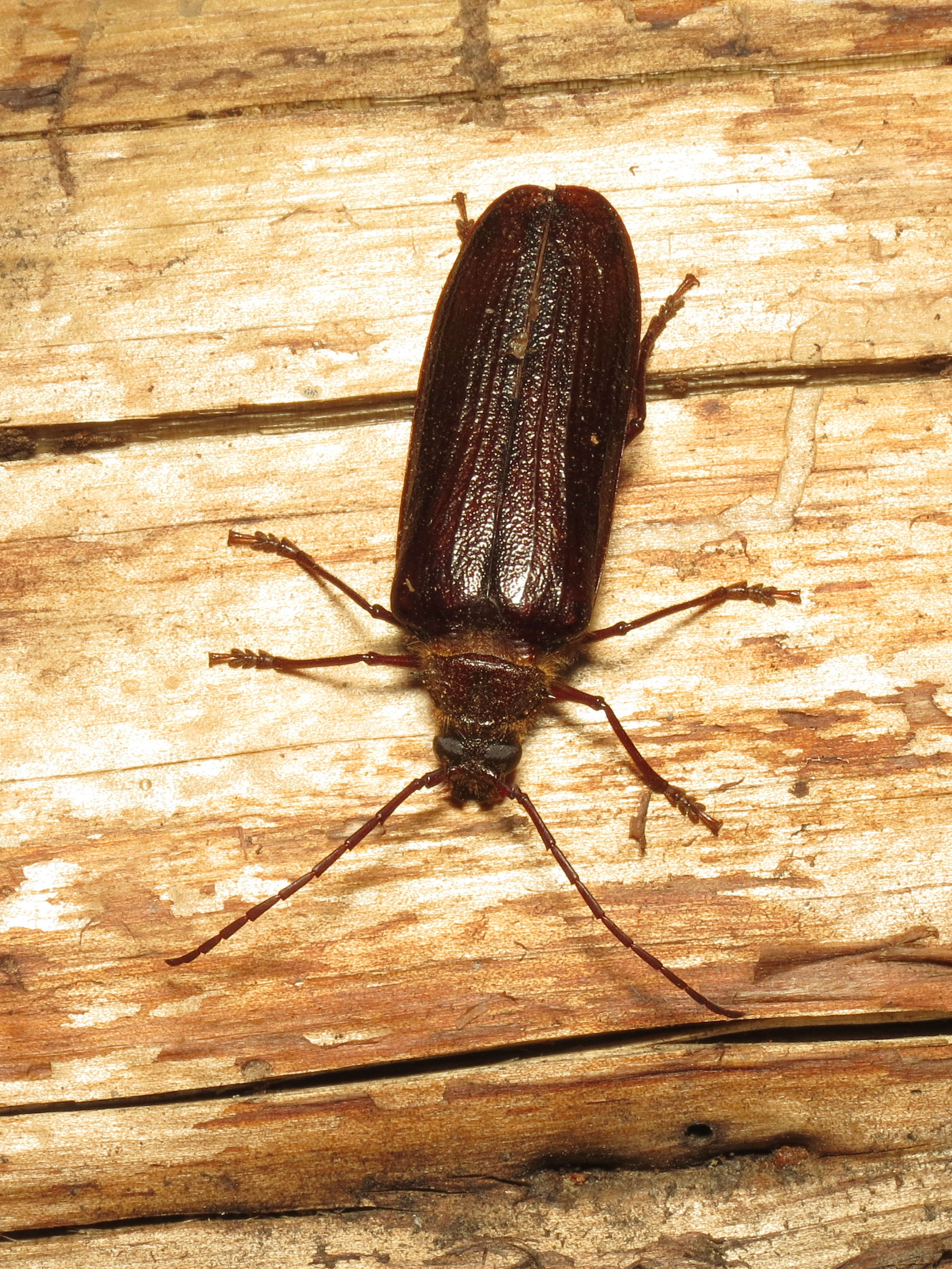 Tragosoma harrisii, posing on a log. Sawtooth National Forest near Stanley, Idaho.